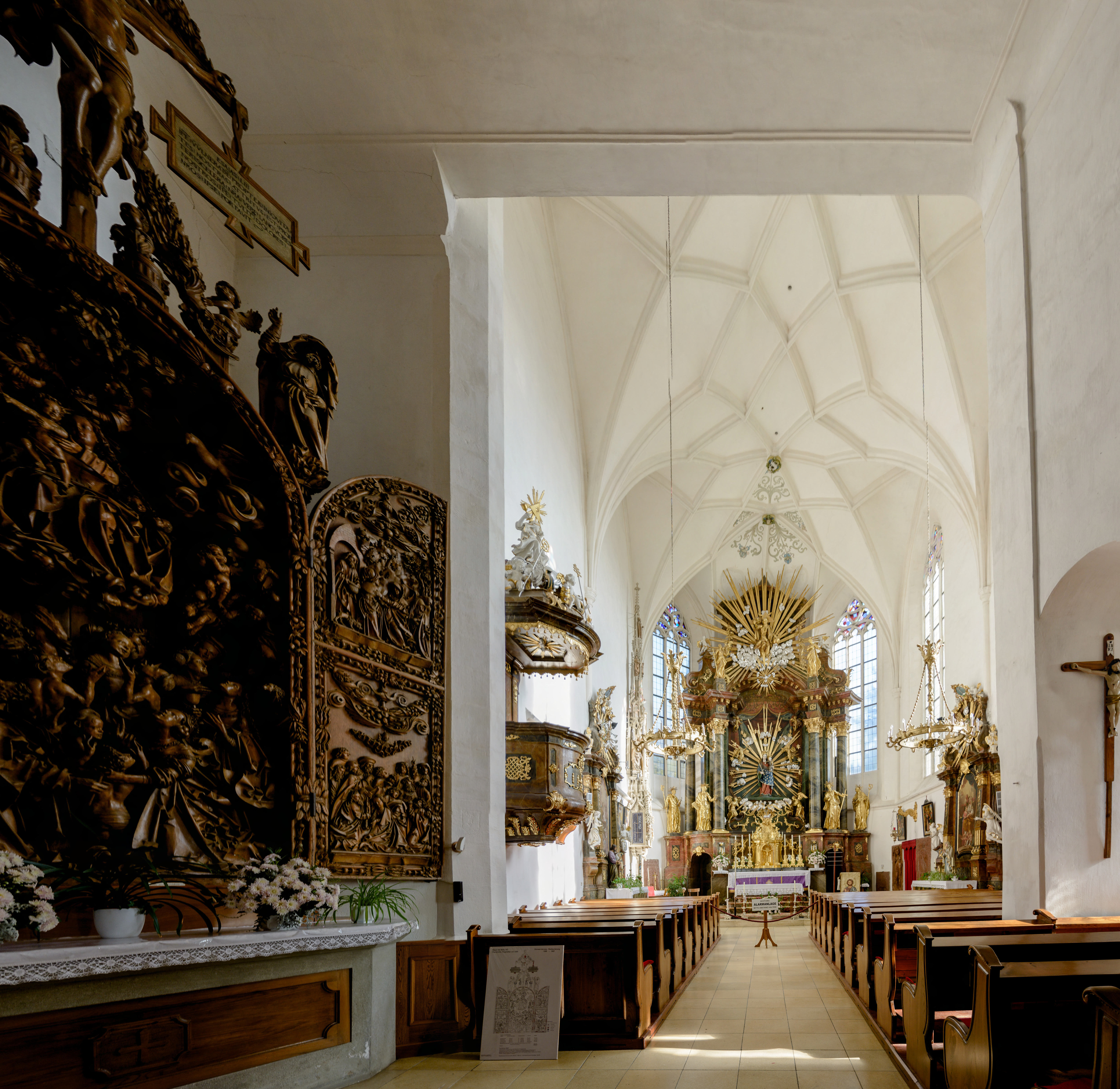 Kath. Pfarrkirche Mariae Namen